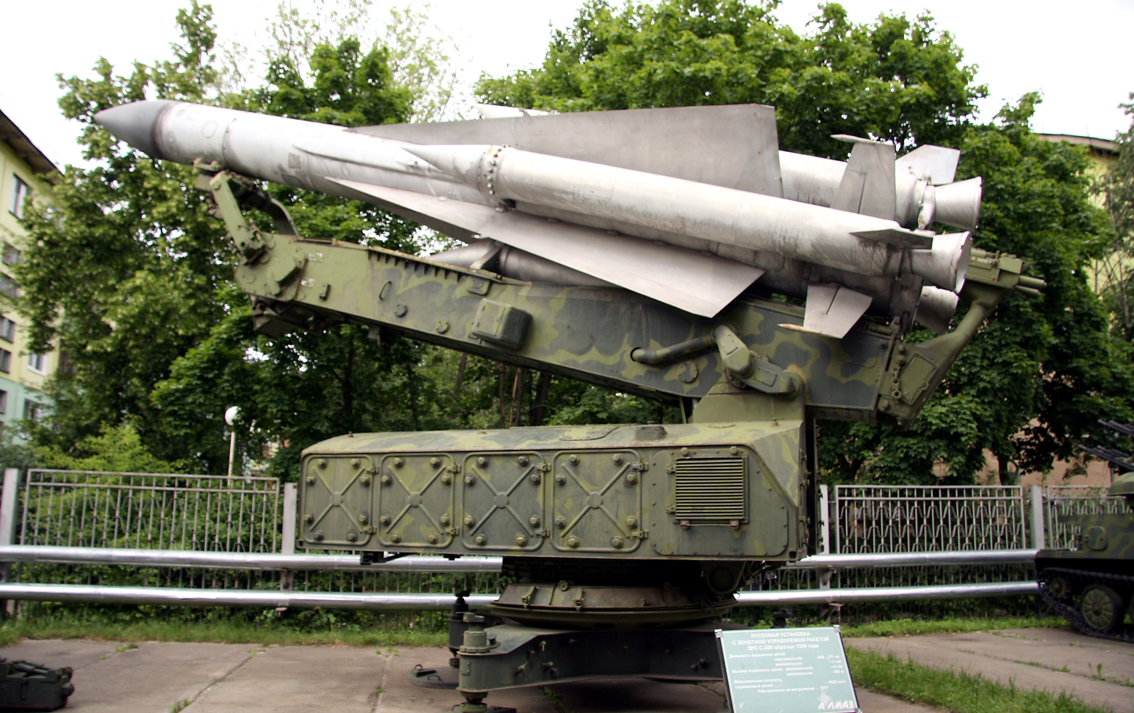 Air Defense History Museum in Zarya in Moscow Oblast.